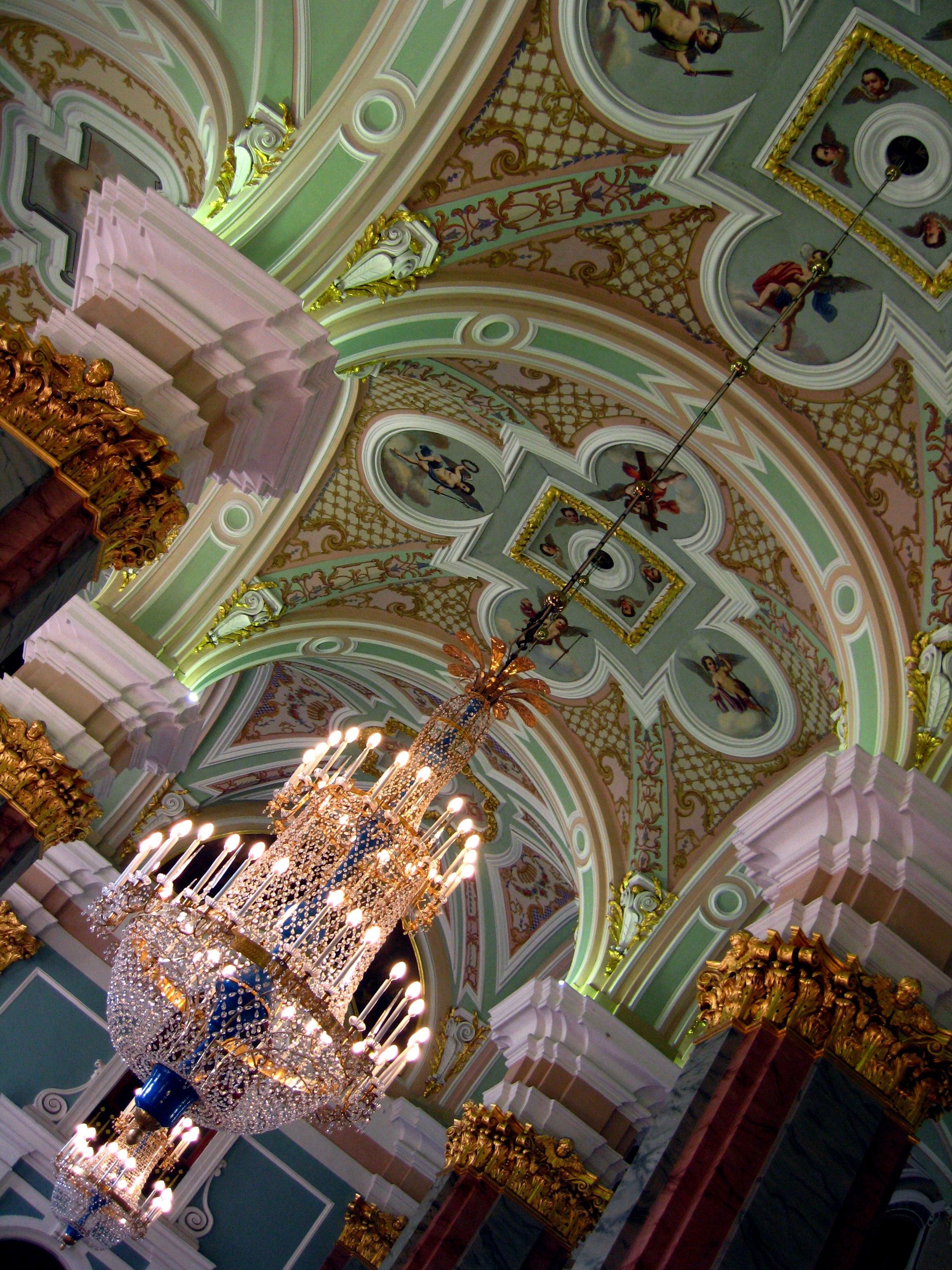 Peter and Paul Cathedral Interior, St. Petersburg, Russia.